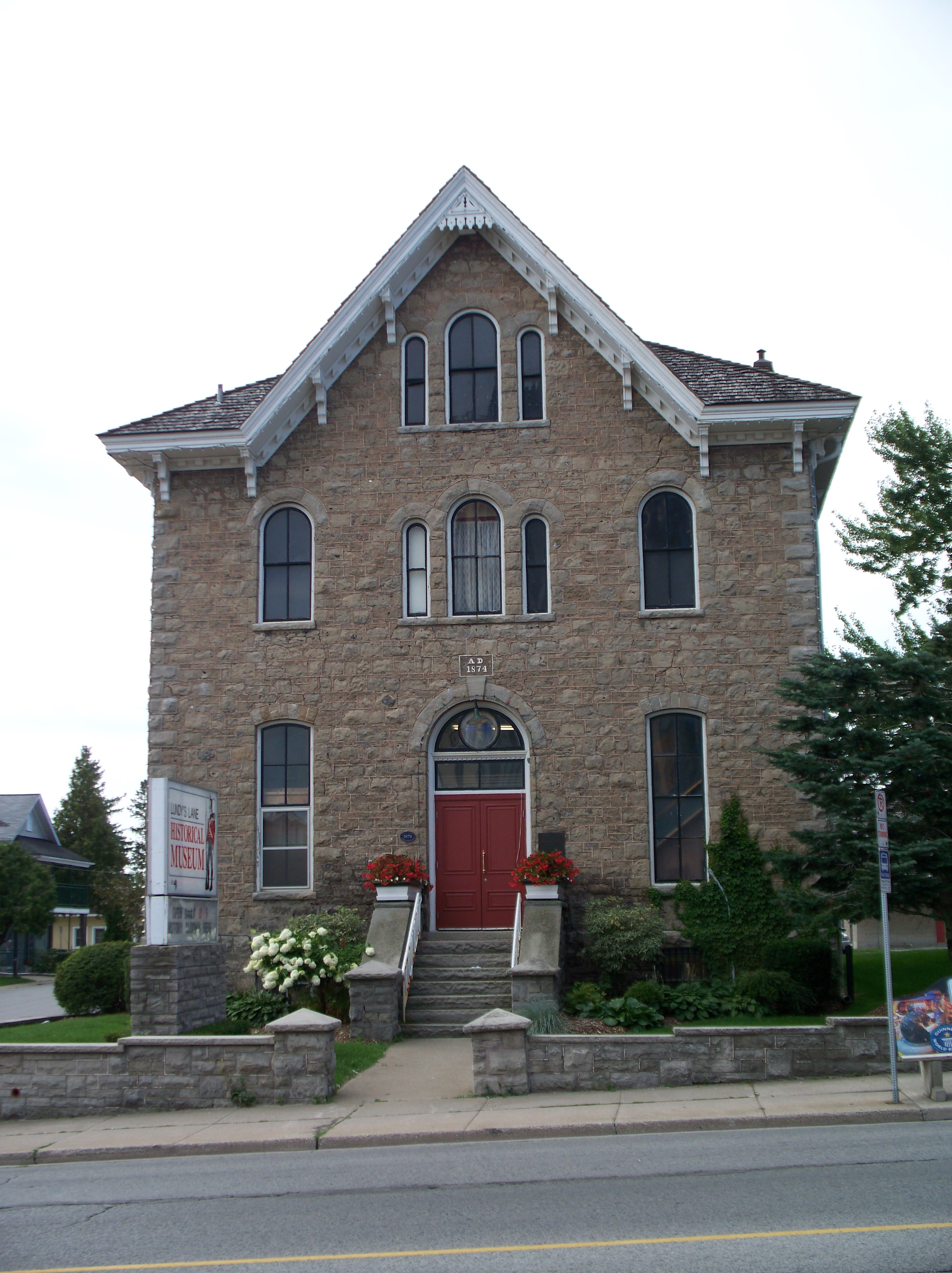 Lundy's Lane Historical Museum, formerly the Stamford Township Hall built in 1874